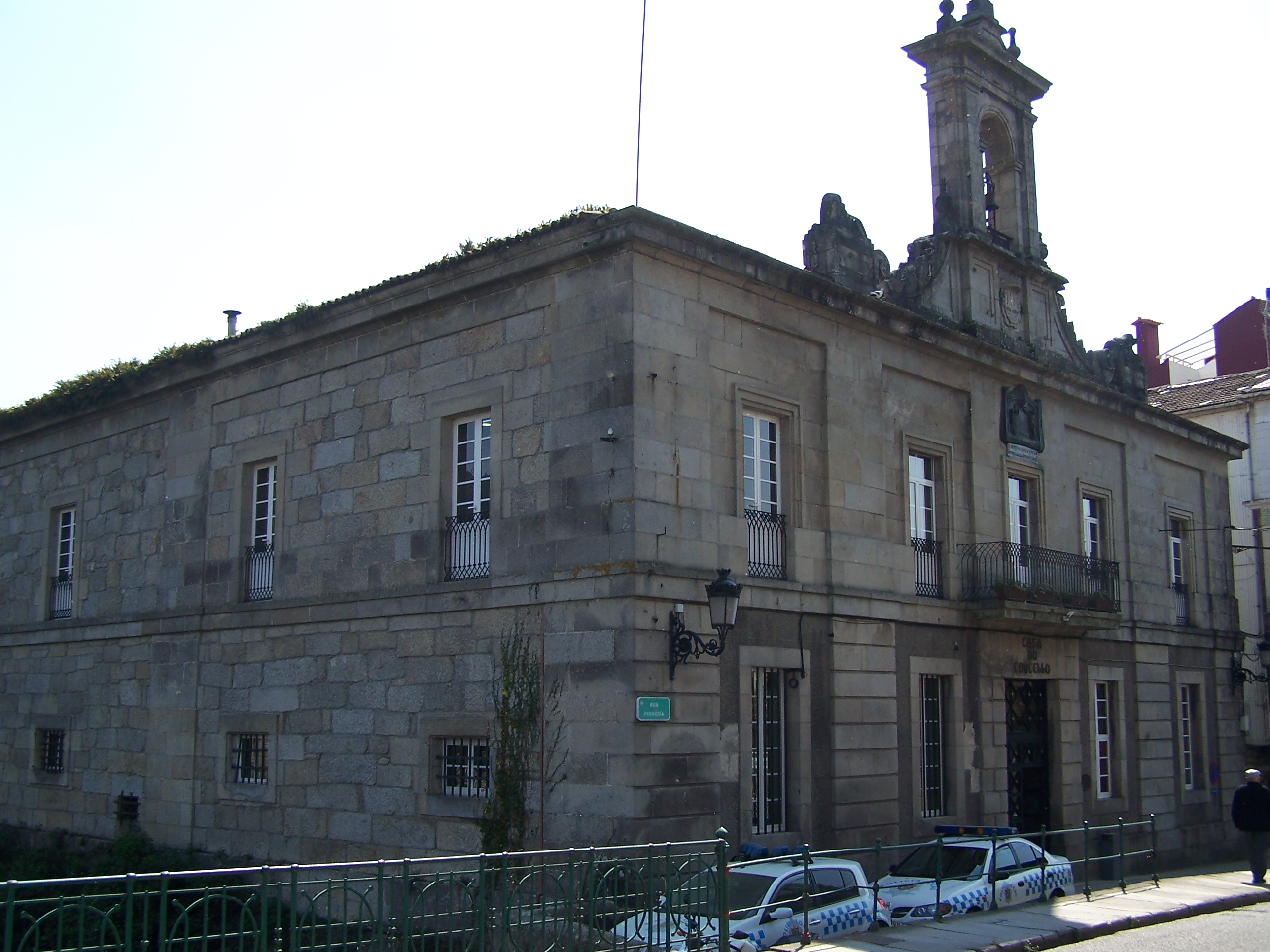 Townhall of Caldas de Reis (Pontevedra) in Galicia, Spain.